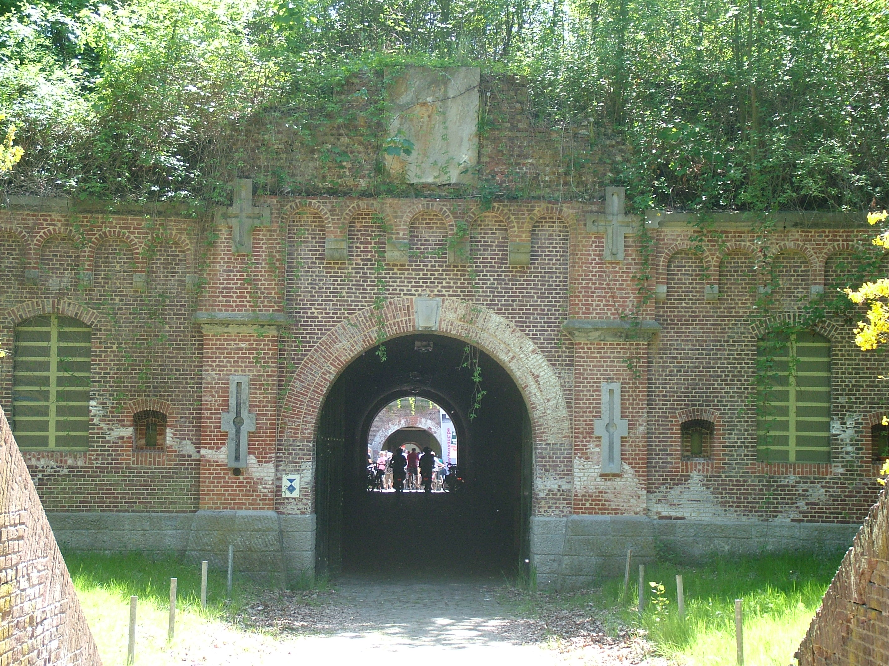 Entrance of Fortress 8 of Hoboken, one of the Brialmont Fortresses around Antwerp.